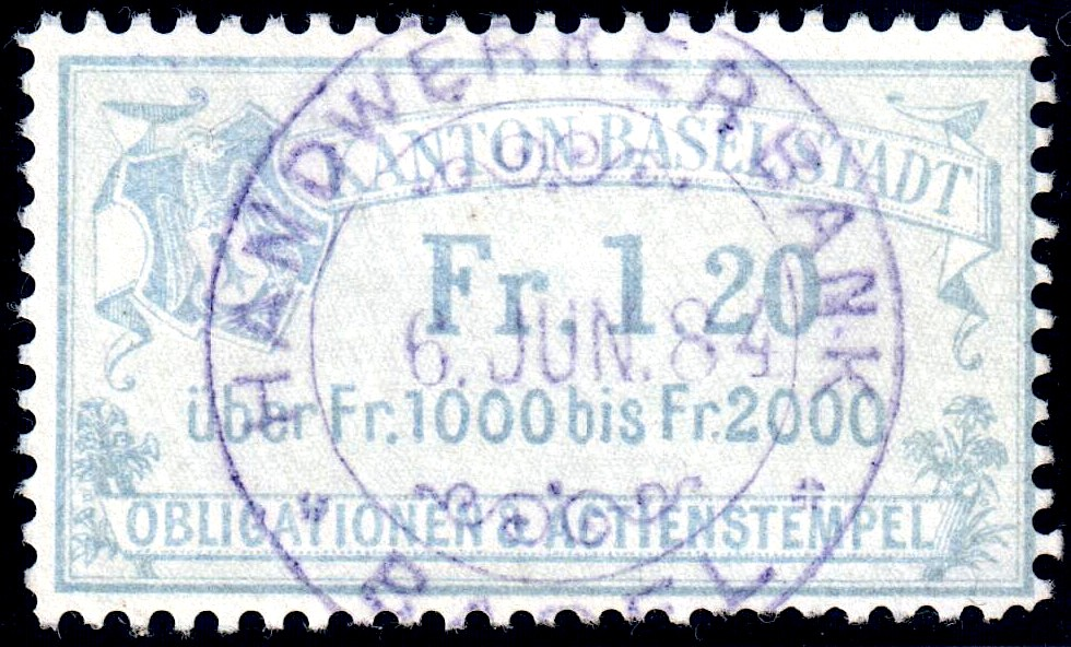 Switzerland Basel 1883 stocks and bonds revenue stamp 1.20Fr - 5A, type 1 with inscription 'OBLIGATIONEN & ACTIENSTEMPEL'. Perforated 11.5.